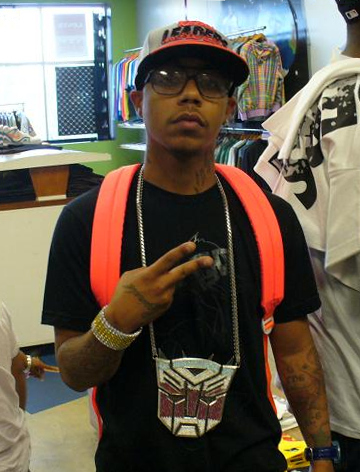 Yung Berg in Chicago.